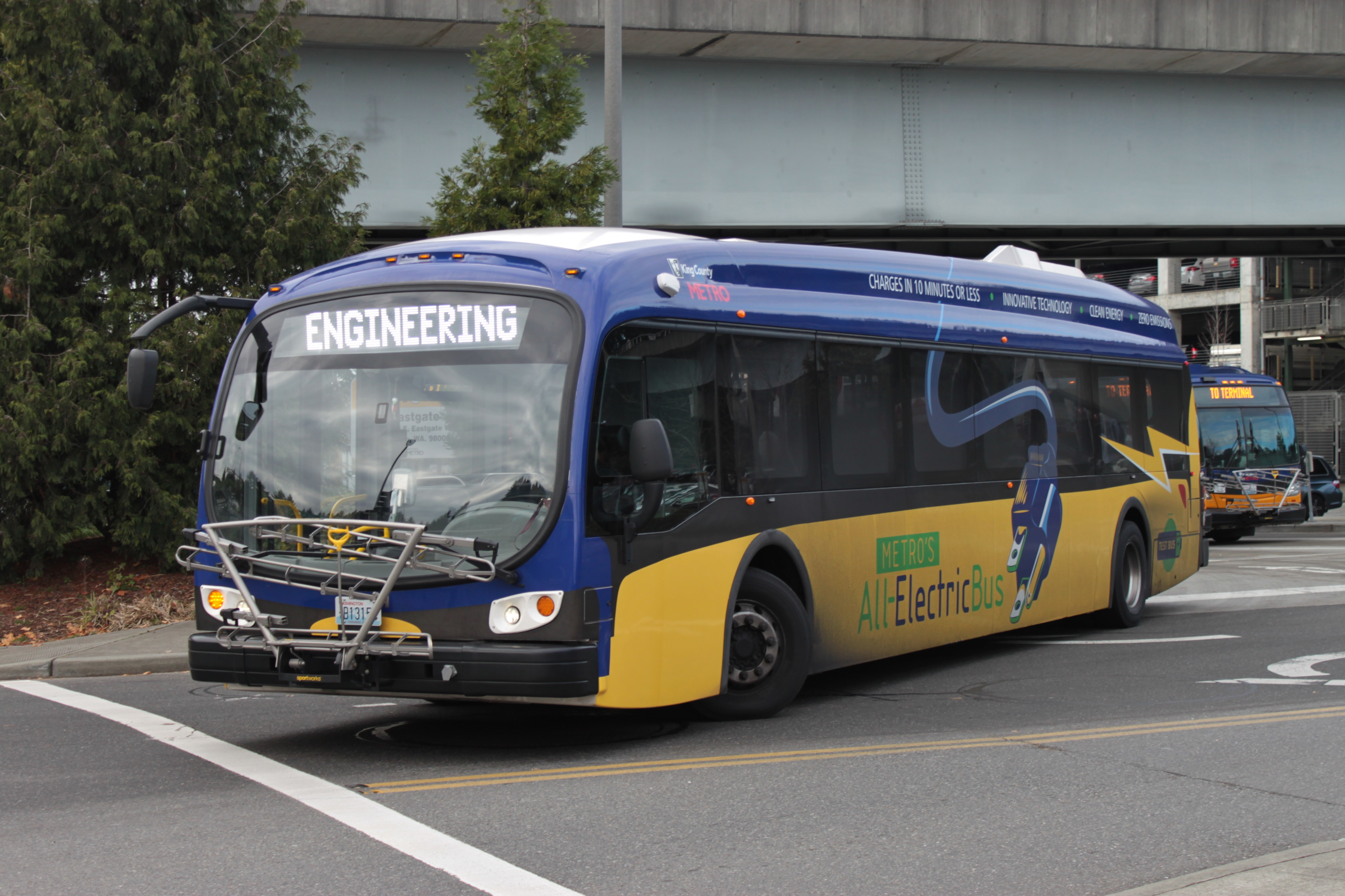 King County Metro has 3 prototype Proterra Catalyst electric battery buses that were put into test runs beginning in August 2015.